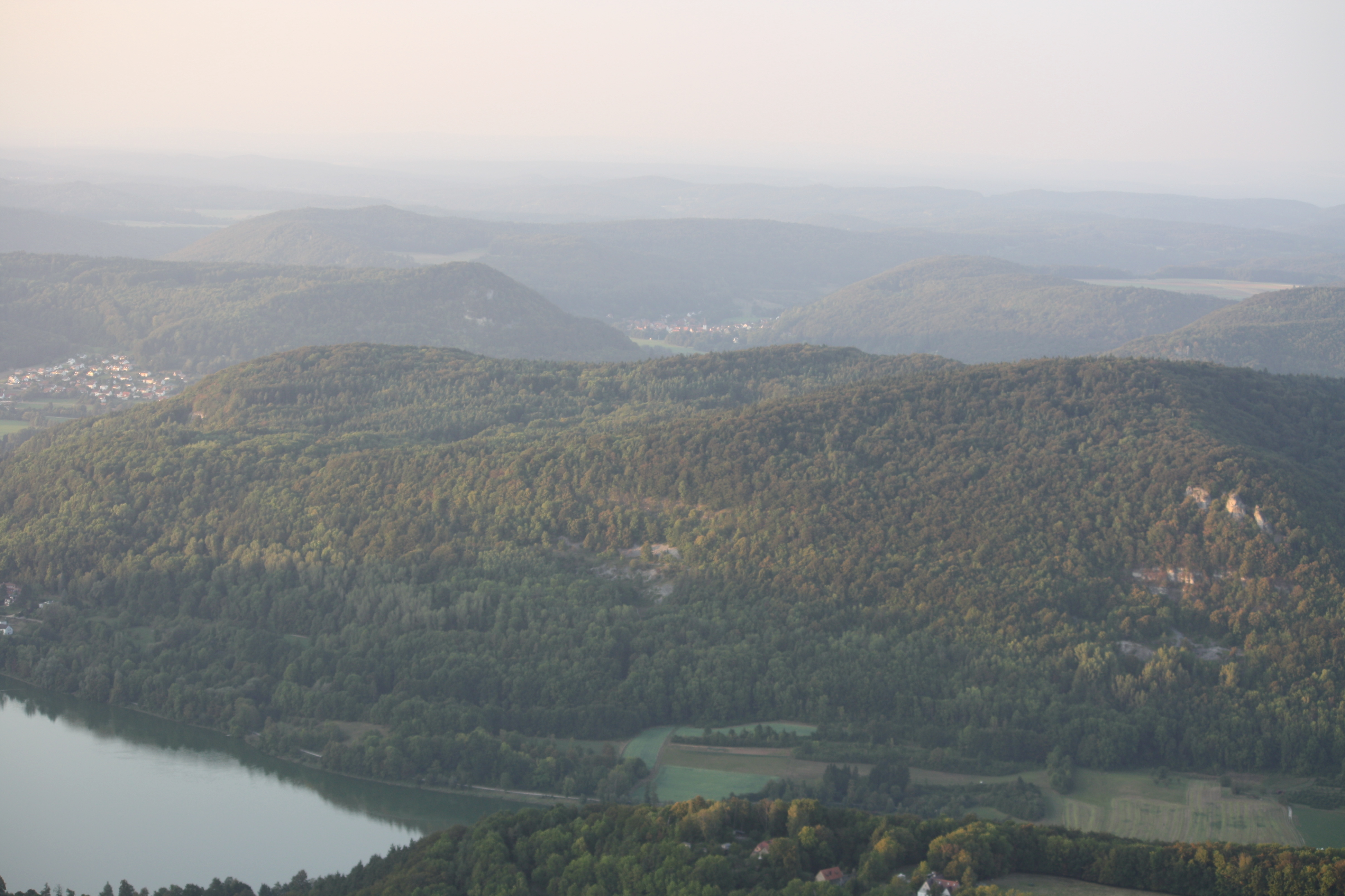 Houbirg near Happurg